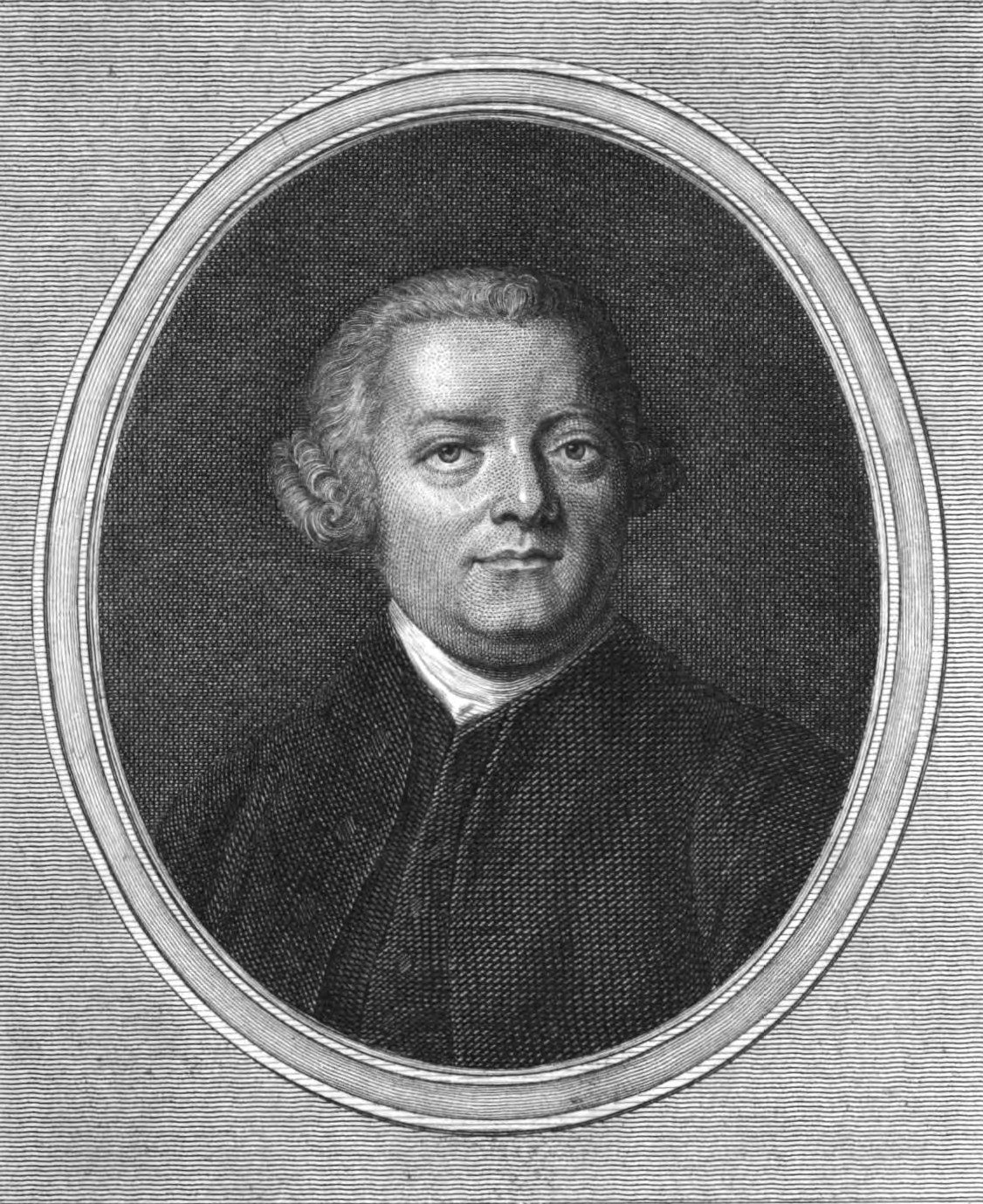 Portrait of Richard Neville Aldworth Neville (1717–1793), until 1762 Richard Neville Aldworth, was an English politician and diplomat.